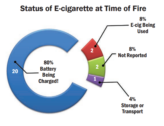 Graphic from an October 2014 U.S. Fire Administration report entitled Electronic Cigarette Fires and Explosions showing the breakdown of the status of e-cigs when they caused fires.